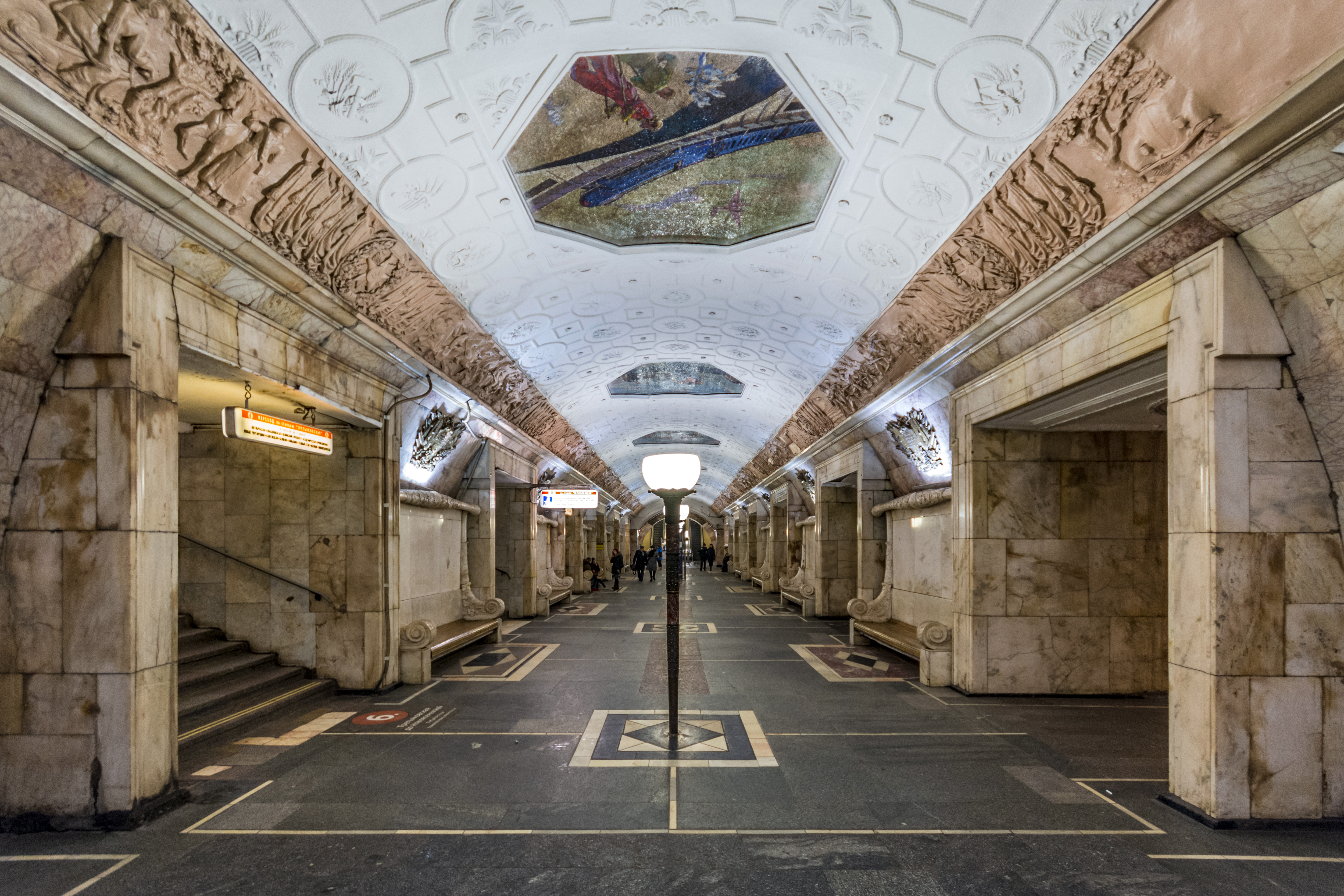 Novokuznetskaya Station of Moscow Subway